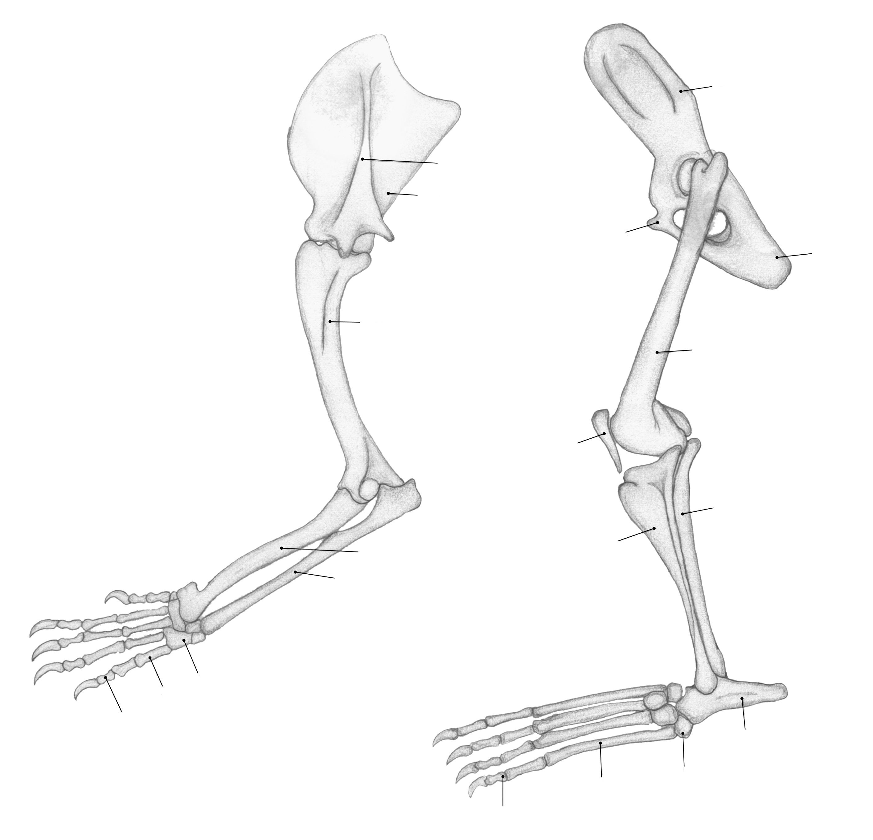 Pencil drawing of skeletal parts of the legs of a Lion